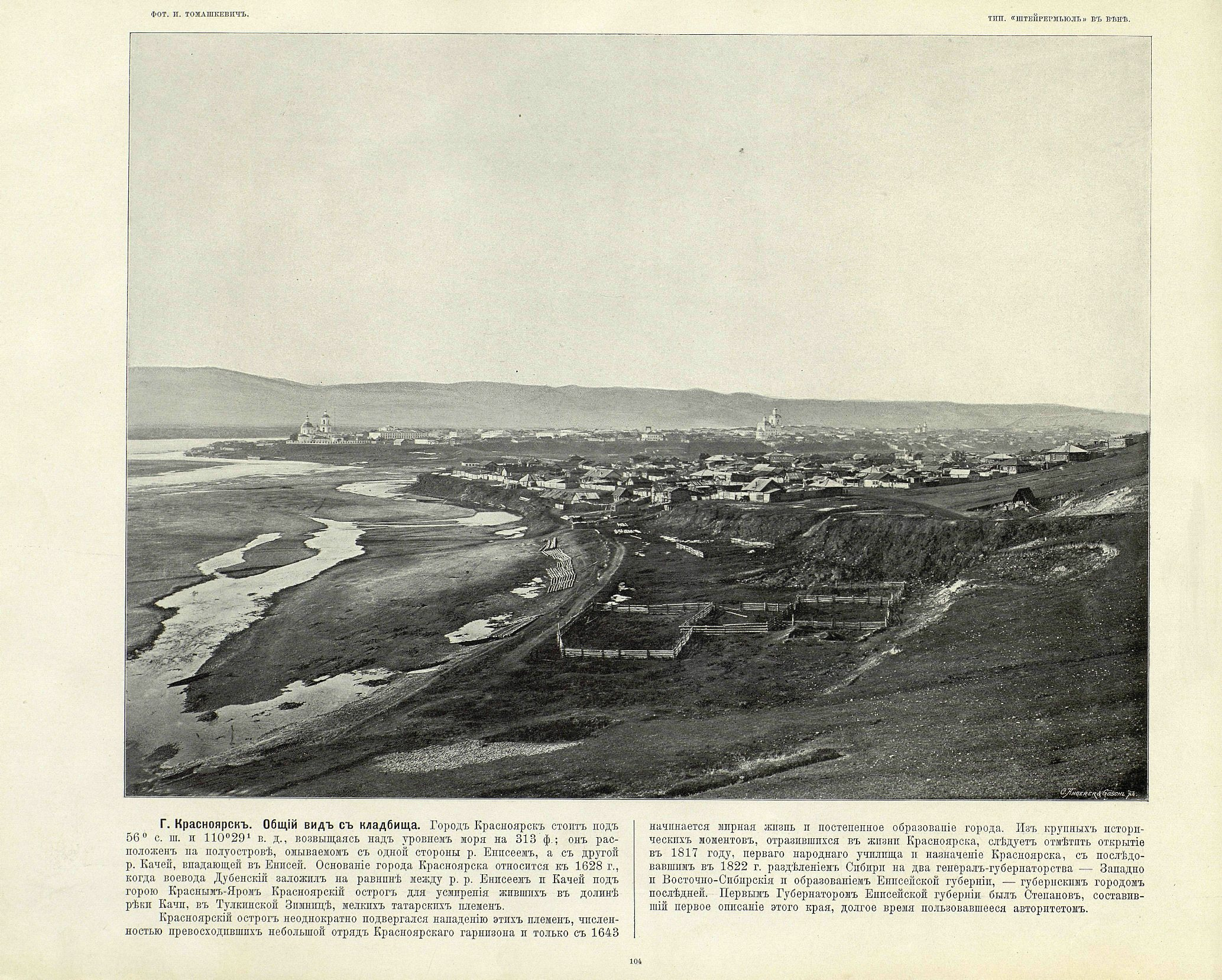 «Great Path - Views of Siberia and Great Siberian Railway» book, 1899